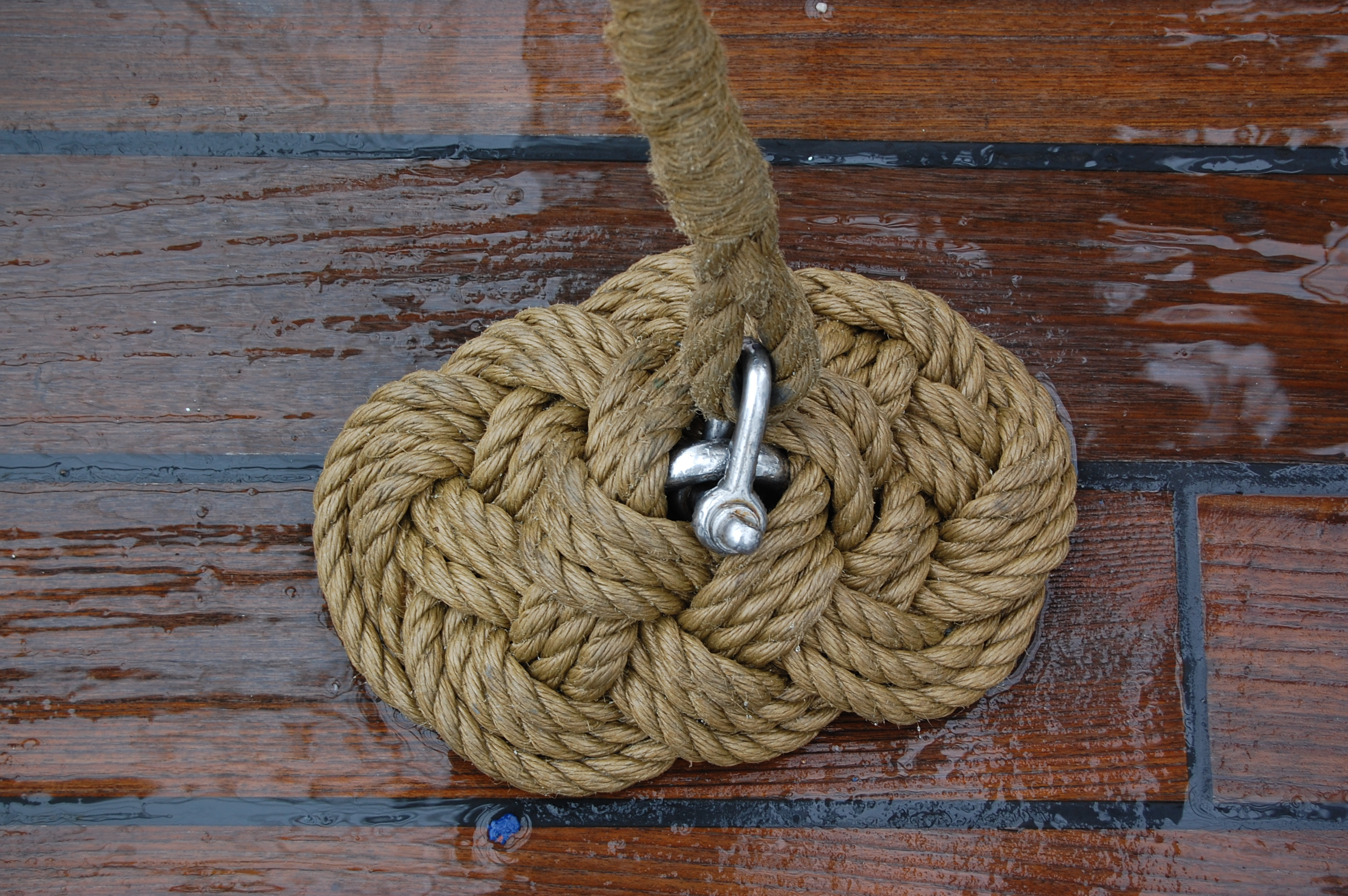 Brazilian ship Cisne Branco on Sail Den Helder June 22, 2013